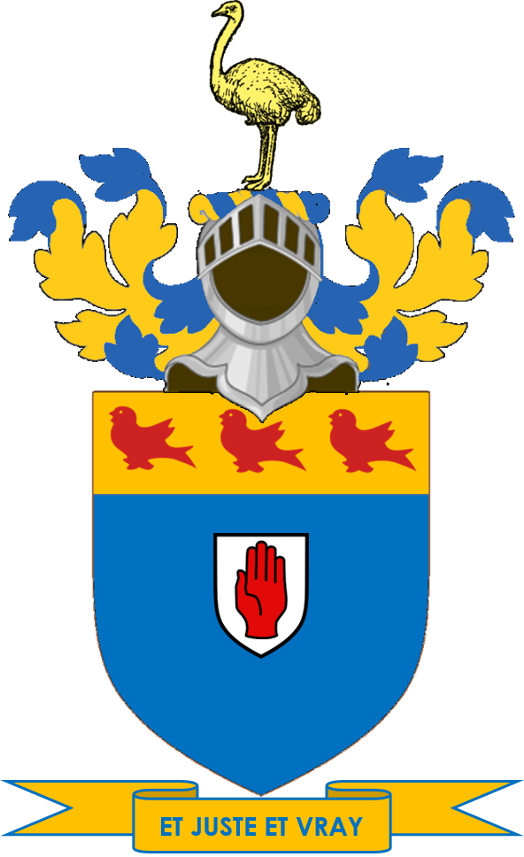 The armorial achievement of the Wray baronets of Glentworth